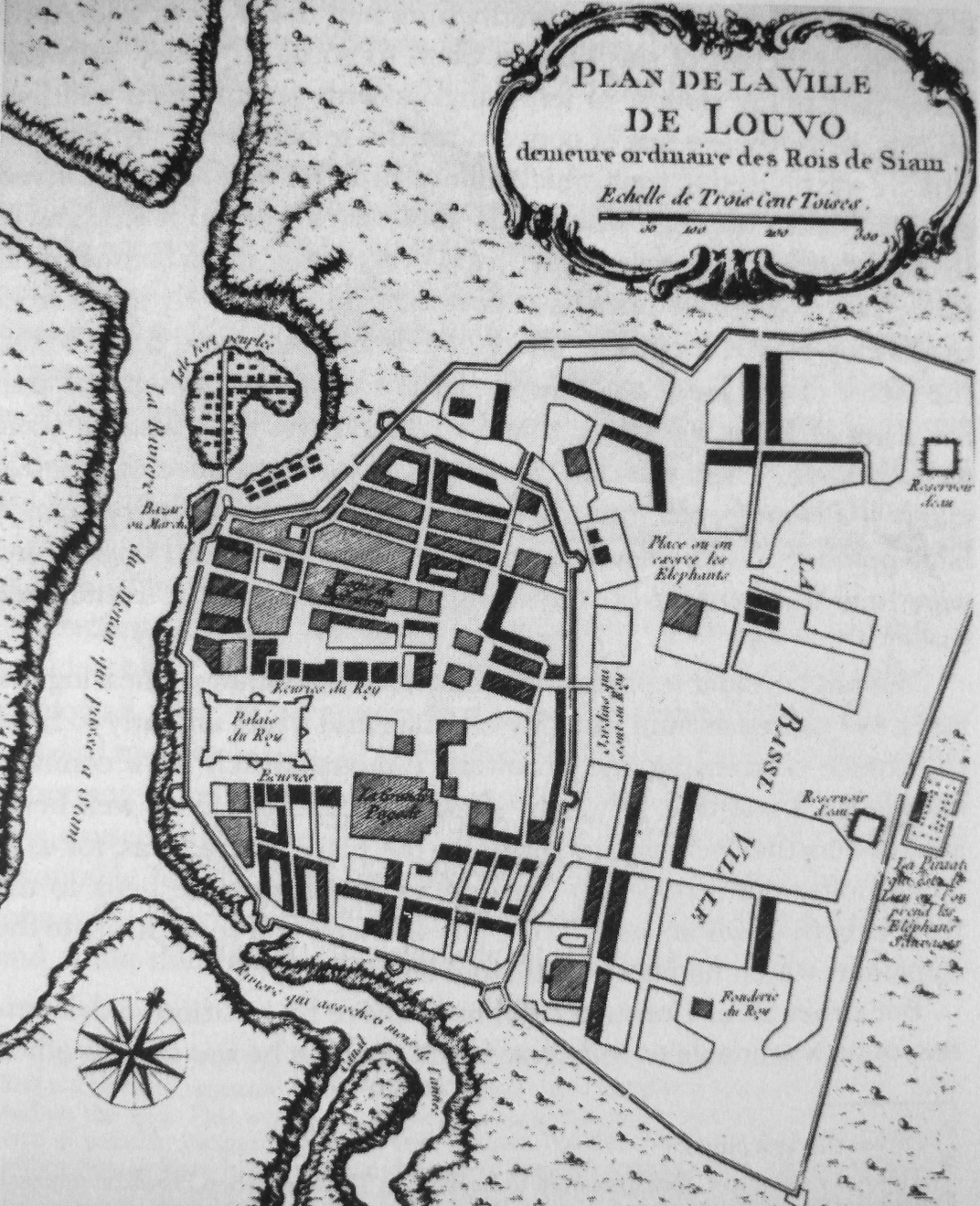 Map of Lopburi